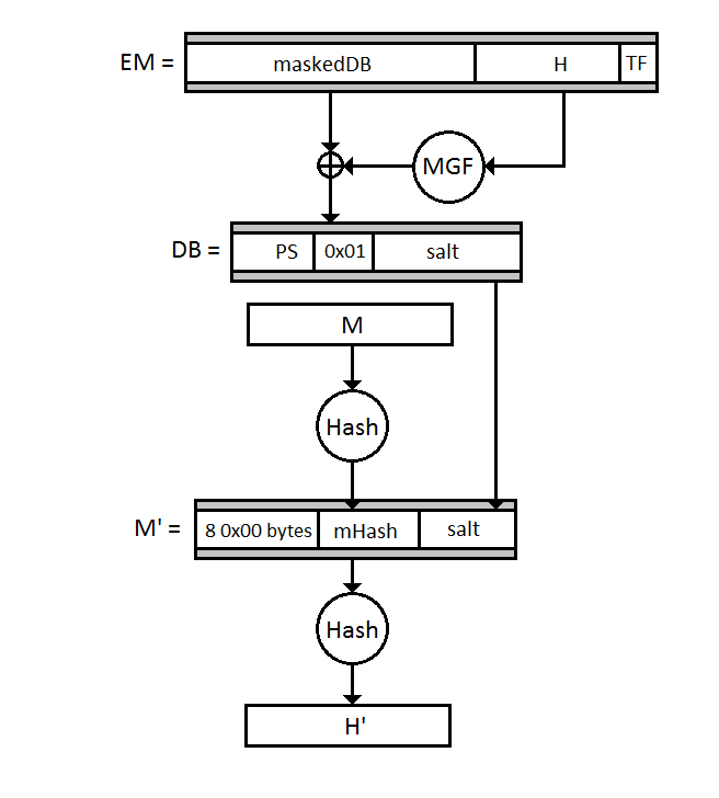 illustration for PSS-verify function of RSASSA-PSS